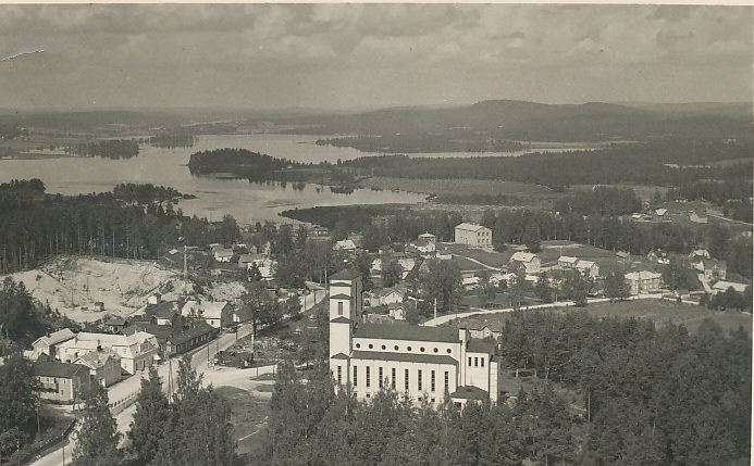 Taulumäki Church in Jyväskylä, Finland from air